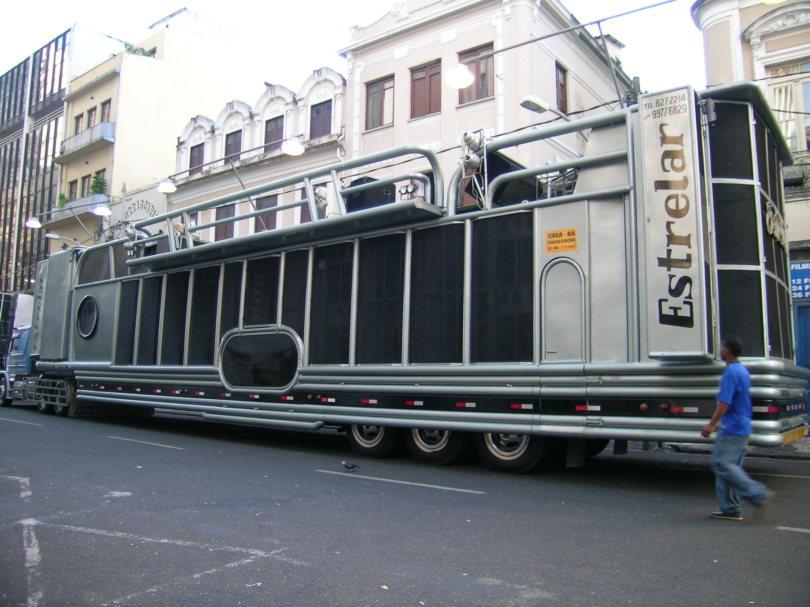 A trio elétrico of Carnaval 2005 in Salvador, Bahia, Brazil, before signage and decorations identifying the "bloco" are added.